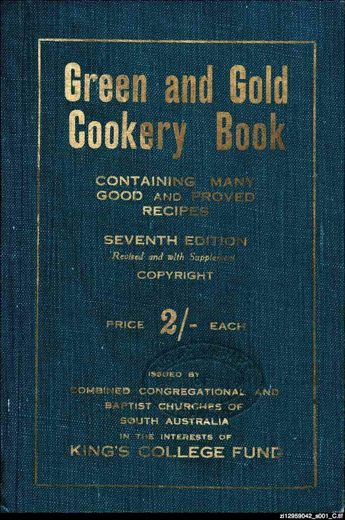 The Green and Gold Cookery Book, a fundraiser by King's College, Adelaide (now Pembroke School, Adelaide), first published 1923.